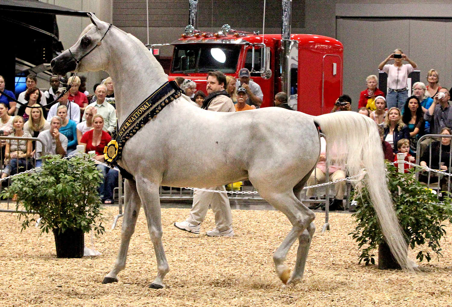 Arabian Celebration Stallion Showcase